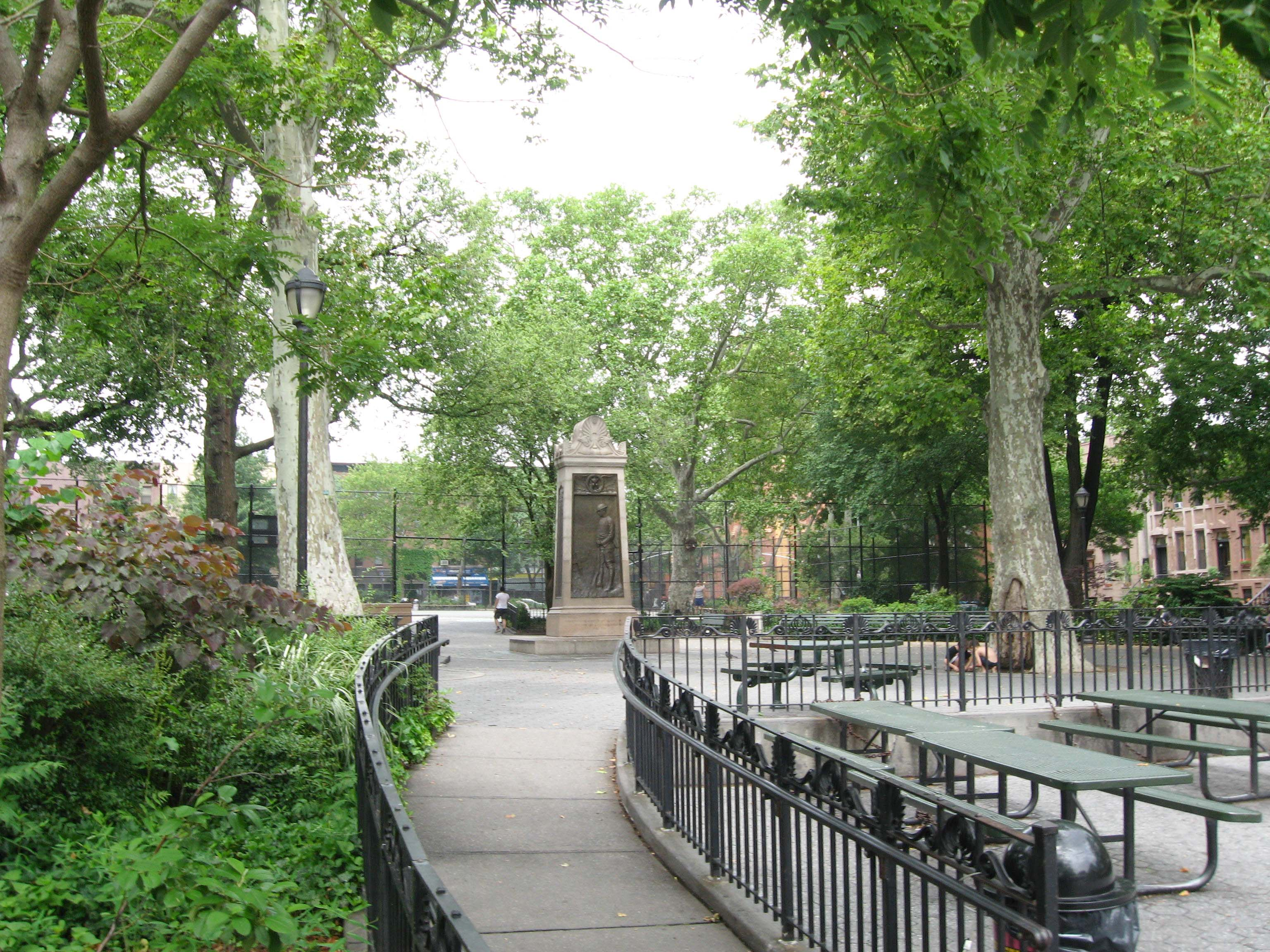 Looking northwest at war memorial at Carroll Park in Carroll Gardens on a cloudy day in June 2008.